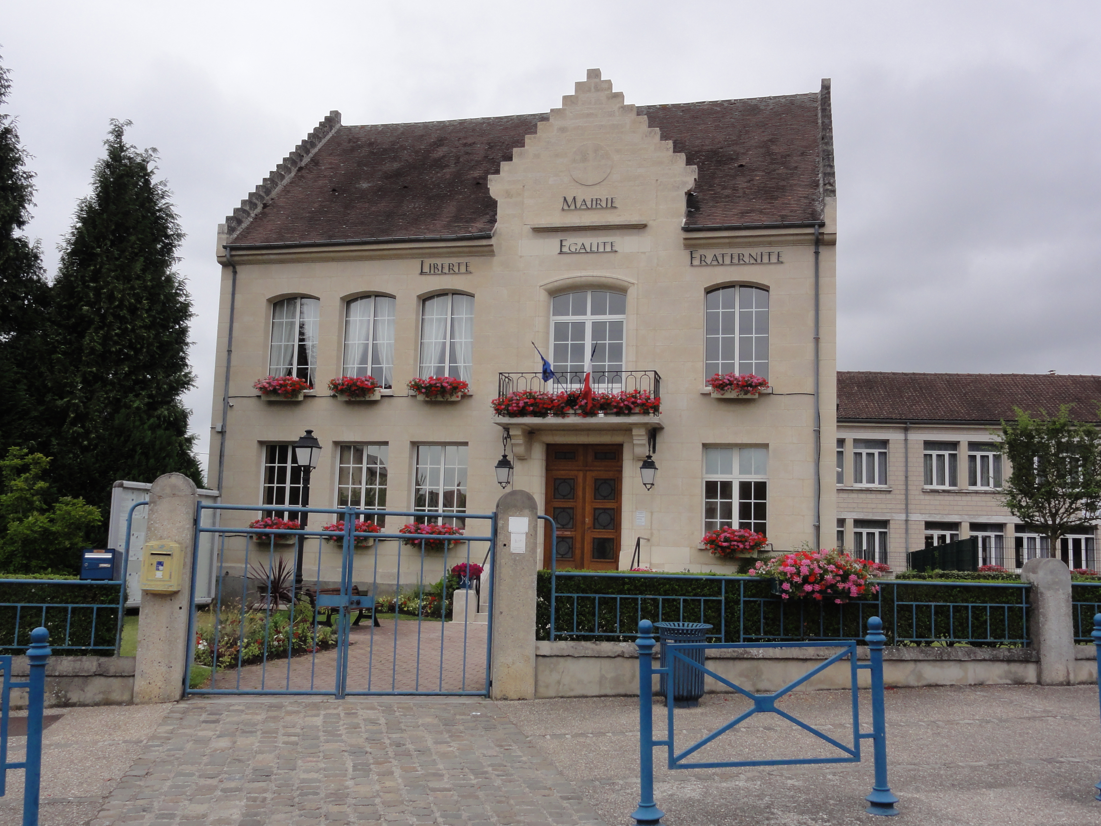 Belleu (Aisne) mairie